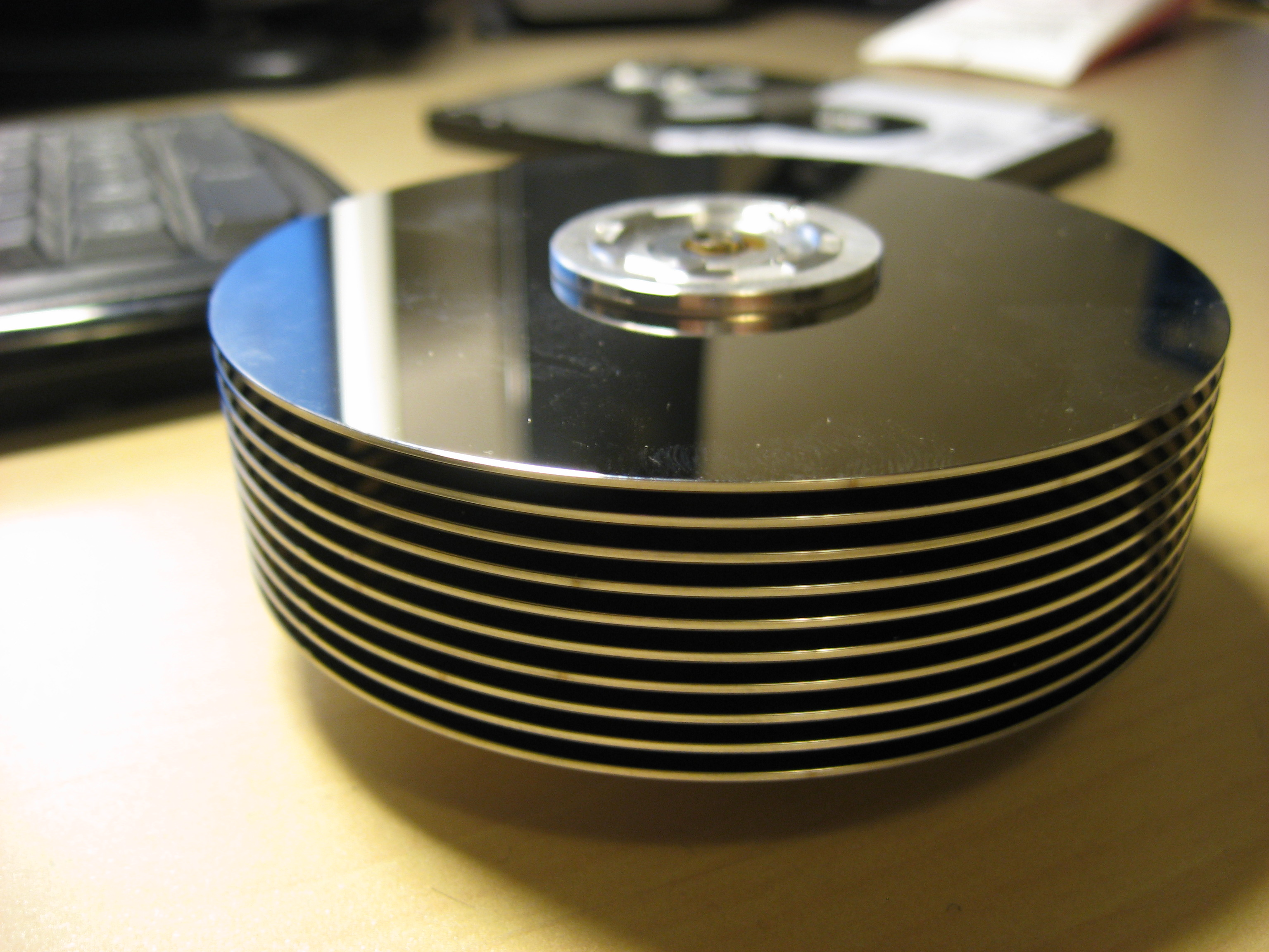 Seagate Barracuda ST19171N SCSI hard disk platter deck.